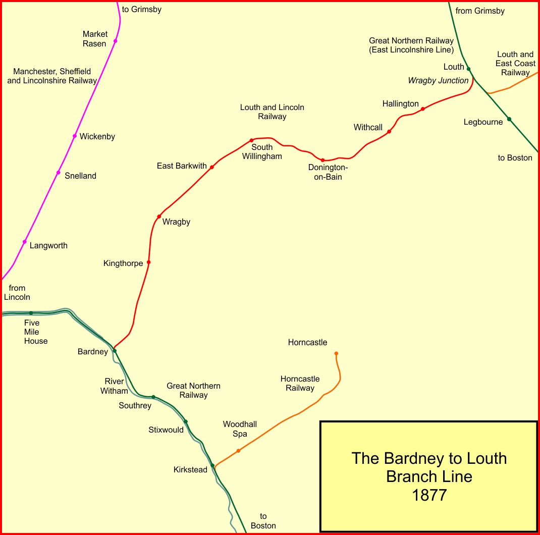 System map of the Louth and Lincoln Railway, England, in 1877. It was built between Louth and Bardney.